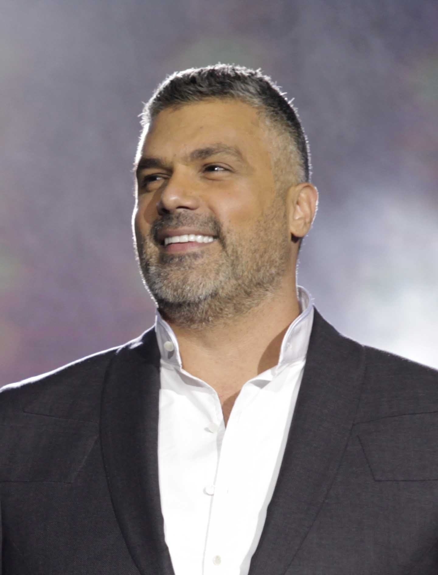 Fares Karam performing in the Karmsaddeh Festival.